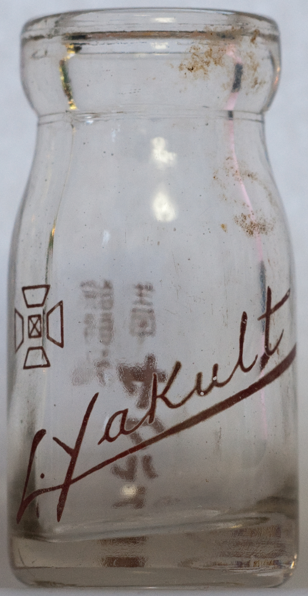 Previously, the Yakult bottle was made of glass.